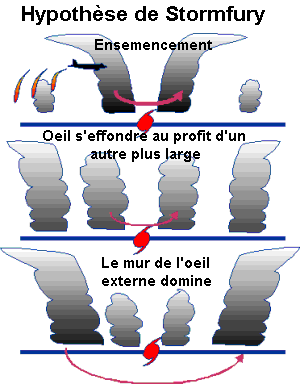 Description in French of the hypothesis of Project Stormfury, a US program of cloud seeding hurricane eye walls, from 1962 to 1983, in order to lessen their strenght. The hypothesis was shown to be false.